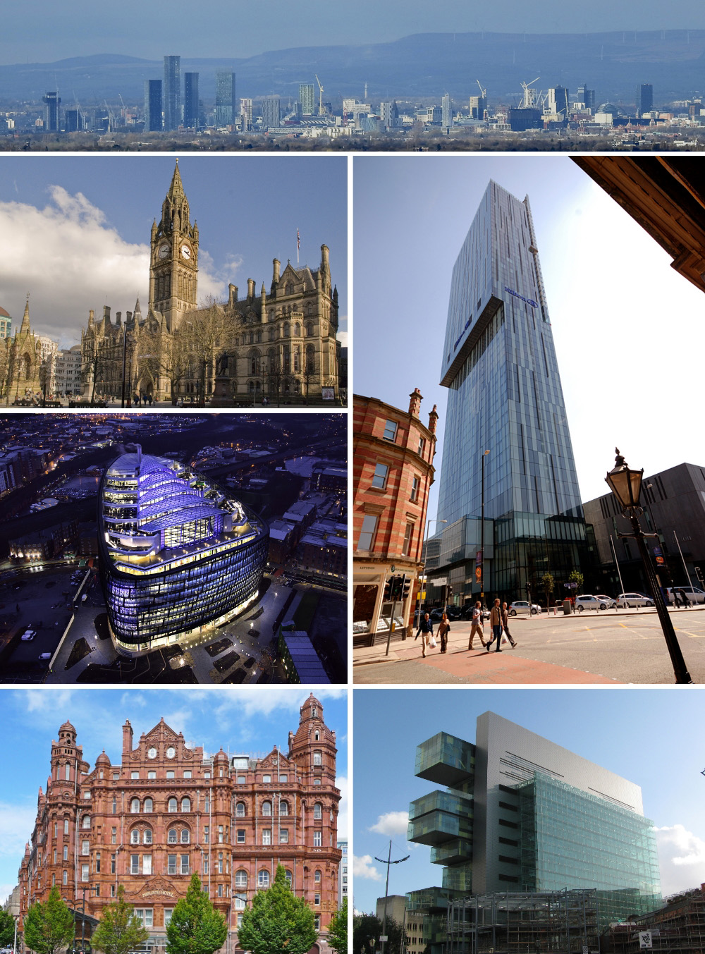 This image provides an at-glance view of various Manchester landmarks.